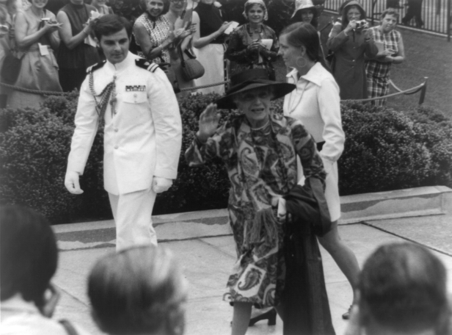 Mrs. Nicholas Longworth and Miss Joanna Sturm escorted by a White House Social Aide arriving at the East Gate of the White House [for the wedding of Tricia Nixon and Edward Cox]